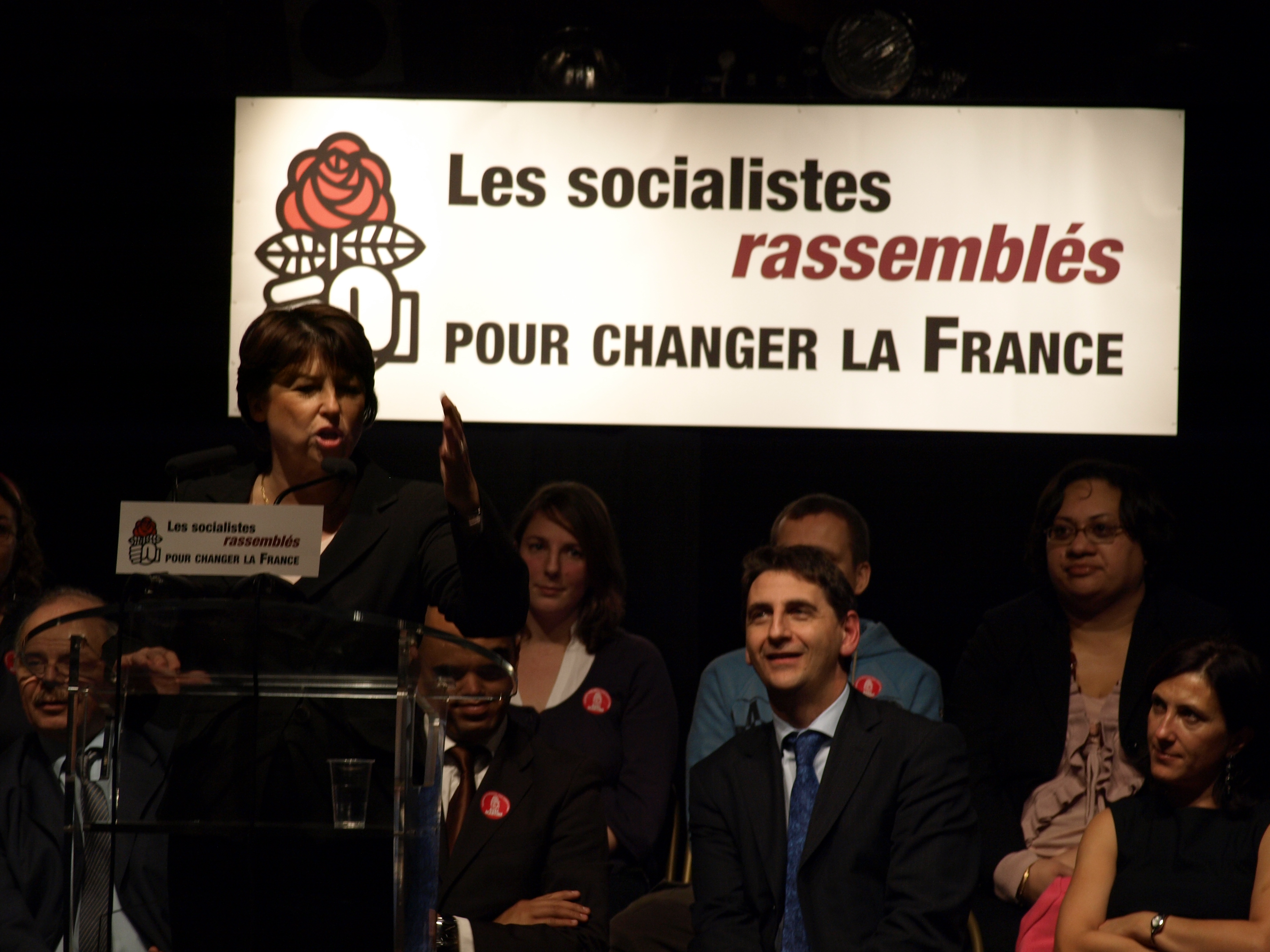 Martine Aubry speaking in Aubervilliers (Seine-Saint-Denis, France).